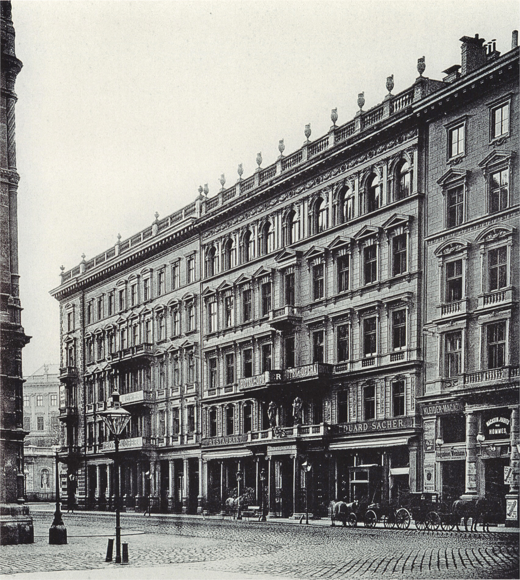 A view of the main entrance of the Hotel Sacher in Vienna